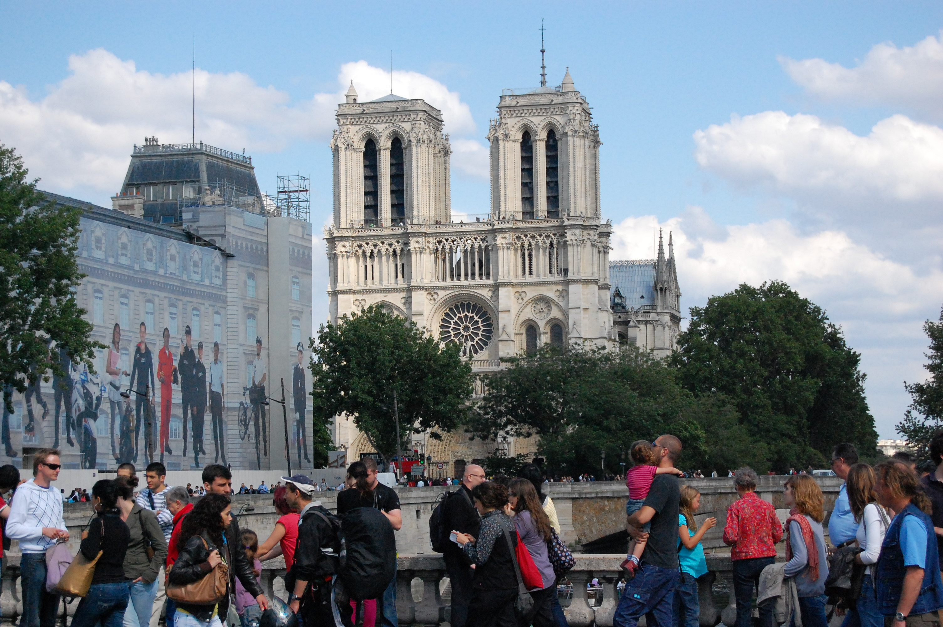 My last minute trip to Paris: The Notre Dame de Paris, Western Facade, on Ile de la Cite, as seen from Quai de Montebello